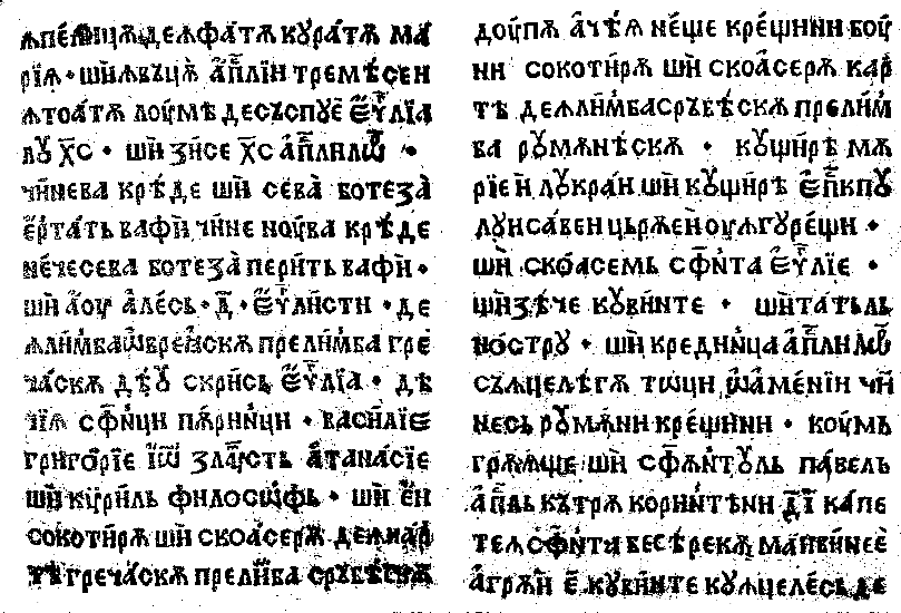 First preserved pages from Luther's Catechism in the second Romanian edition of 1559; as argued by scholar Ioachim Crăciun, this reproduces a (since-lost) 1544 edition put out at Hermannstadt (Sibiu) by Philippus Pictor (Philipp Maler, Filip Moldoveanul), with cosmetic changes. The original book was intended for the spread of Lutheranism among the Orthodox reading public of Transylvania, Wallachia, and Moldavia. The text rendered here includes references to 1540s events, and also mentions "Romanian Christians" (рꙋмѫни крєщини) and "the Romanian tongue" (лимба рꙋмѫнѣскѫ).